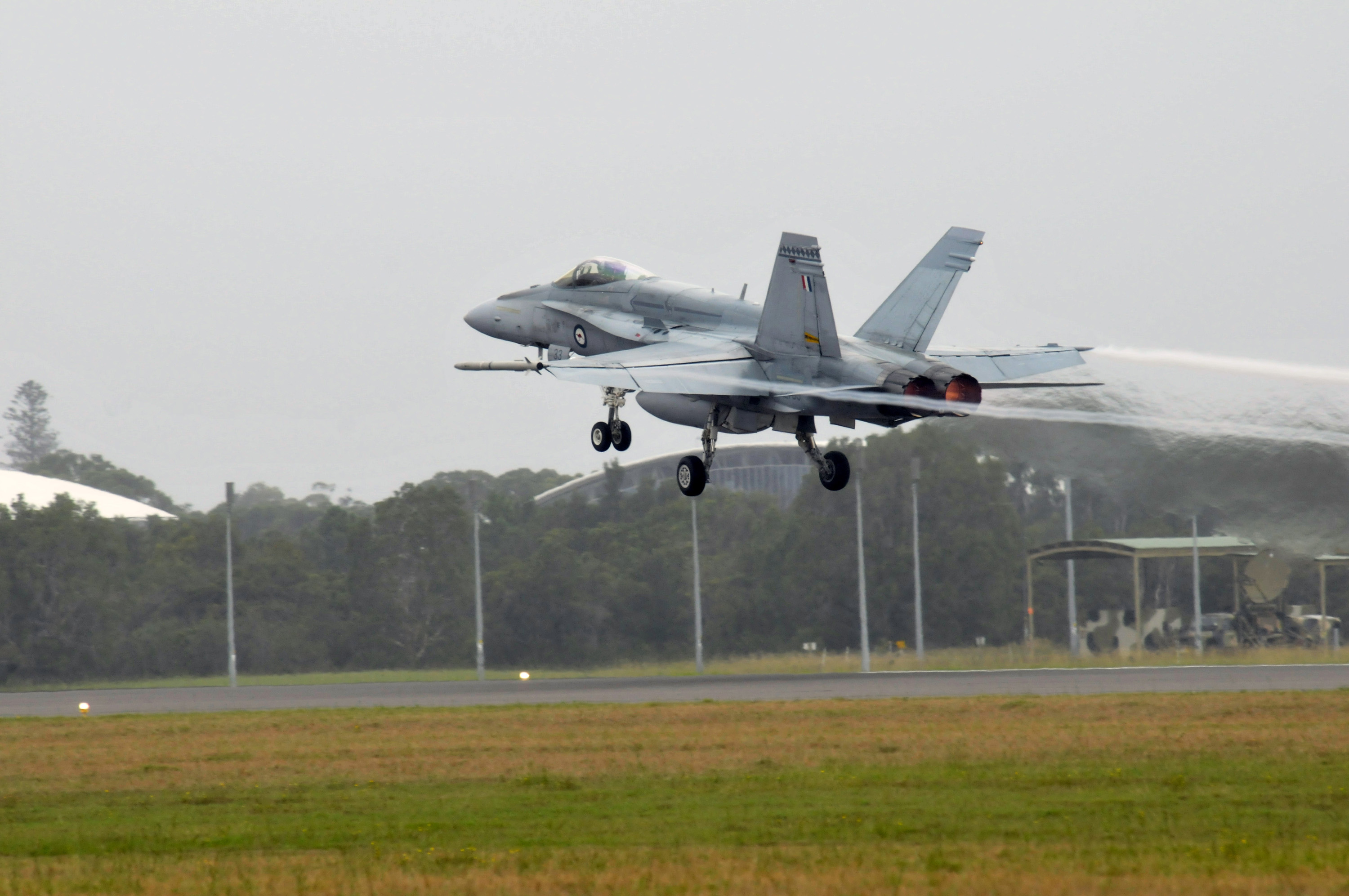 An Australian F/A-18A Hornet takes off at Royal Australian Air Force (RAAF) Base Williamtown, New South Wales, Australia, on February 21, 2011.